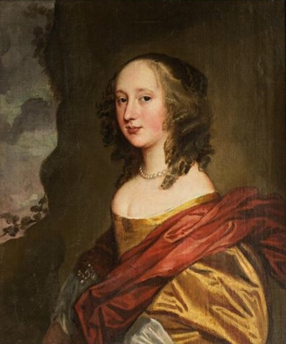 Inscribed on old lining 'Her Grace the Duchess of Leeds Born : 1629. obyt: Jan ry: 6th: 1703: Atatis Don by Hales:'. Circa 1660. Oil on canvas in a period carved giltwood 'Lely' frame Dimensions: 94 x 84cm (37 x 33in)